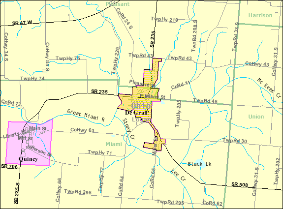 Map of De Graff, a village in Logan County, Ohio, United States, with its boundaries at the time of the 2000 census.